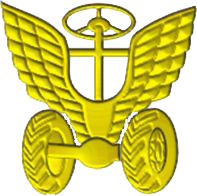 Automotive troops branch insignia of Ukraine